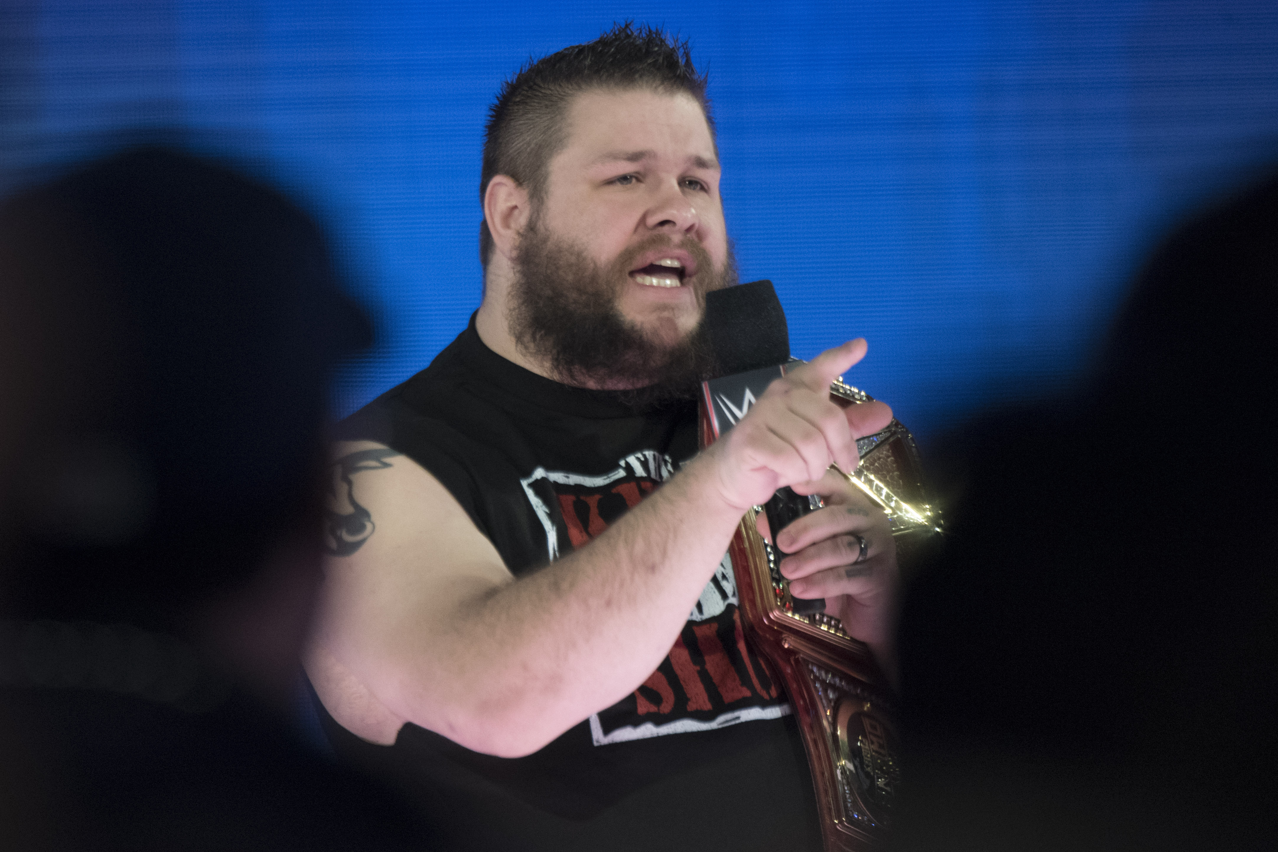 WWE performer Kevin Owens participates in the 14th Annual Tribute to the Troops Event at the Verizon Center in Washington, D.C., Dec. 13, 2016. WWE Tribute to the Troops is an annual event held by WWE and Armed Forces Entertainment in December during the holiday season since 2003, to honor and entertain United States Armed Forces members. WWE performers and employees travel to military camps, bases and hospitals, including the Walter Reed National Military Medical Center at Naval Support Activity Bethesda. DoD Photo by Navy Petty Officer 2nd Class Dominique A. Pineiro